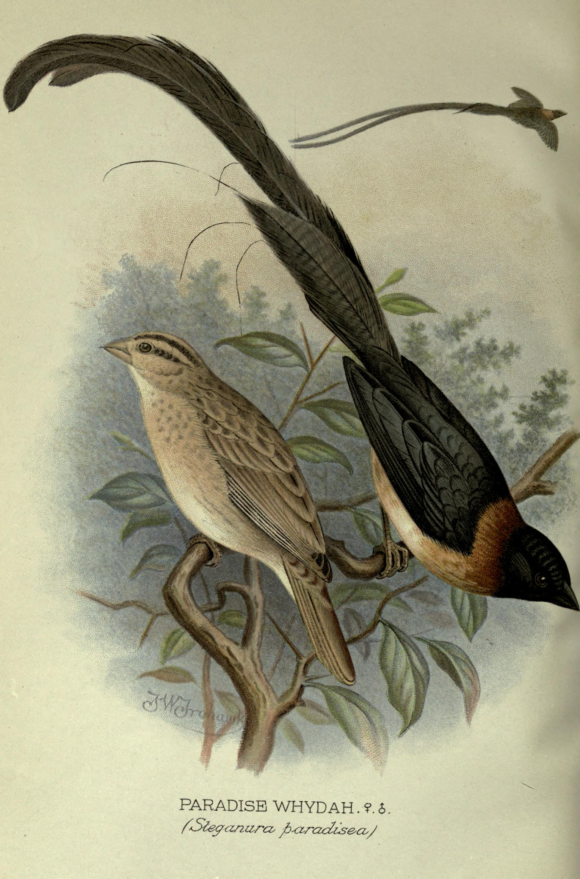 Foreign finches in captivity.